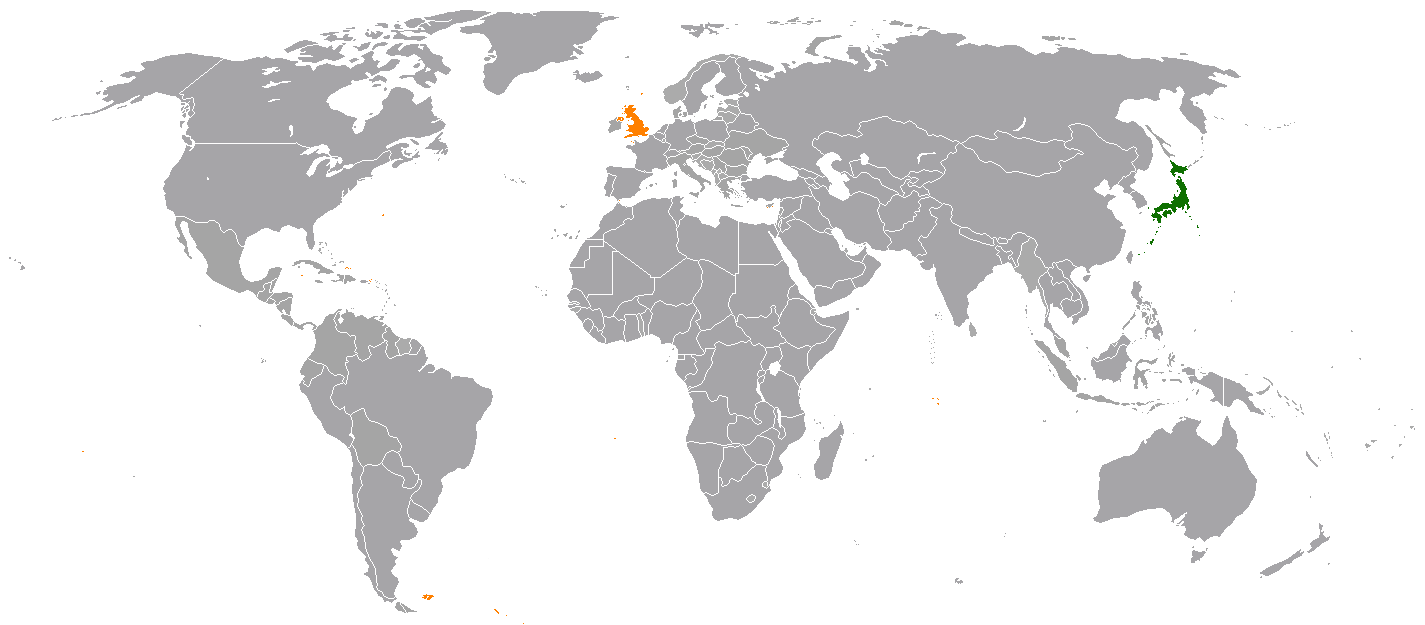 Map showing the locations of both Japan and the United Kingdom